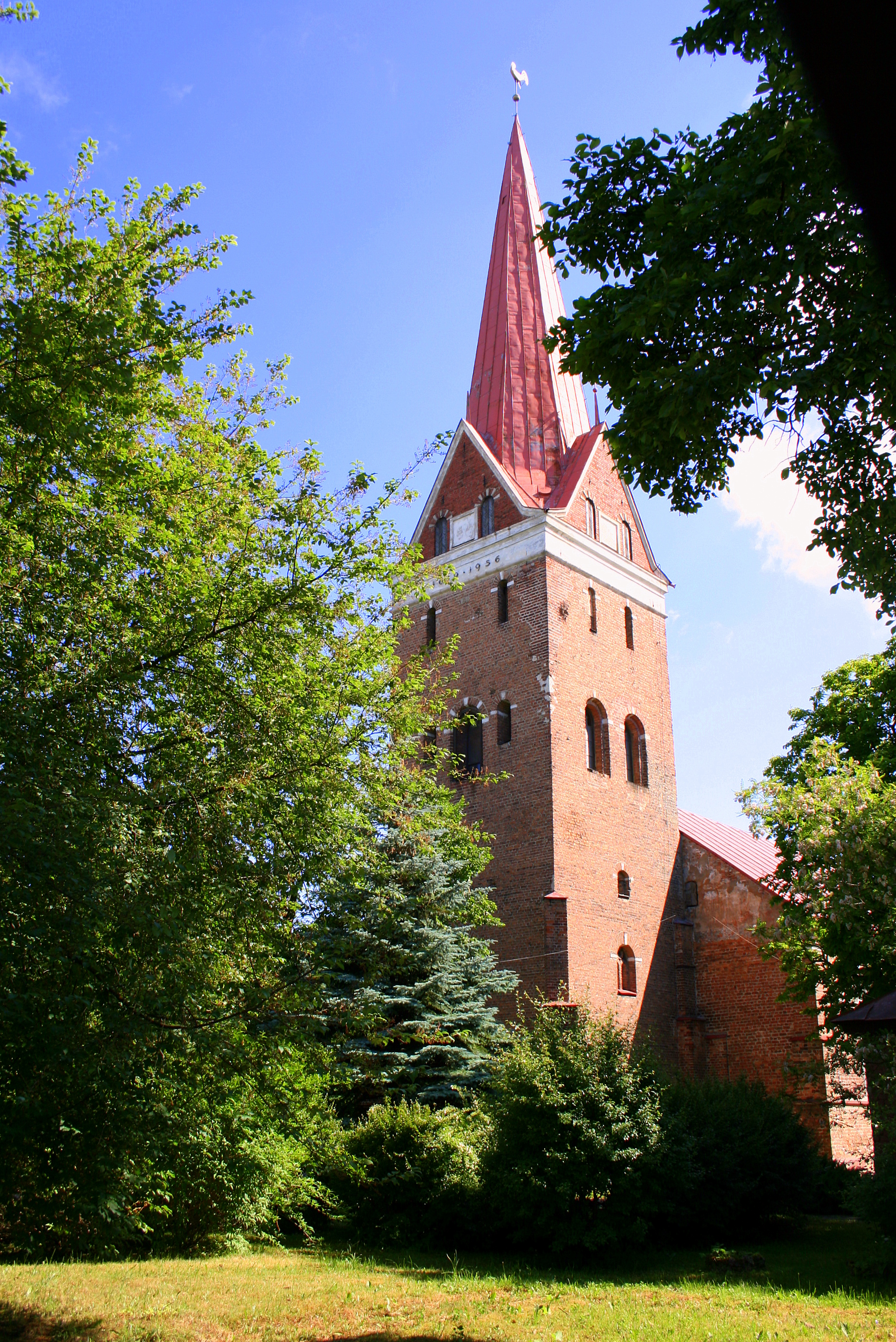 Jelgava St. Anna Evangelic Lutheran Church